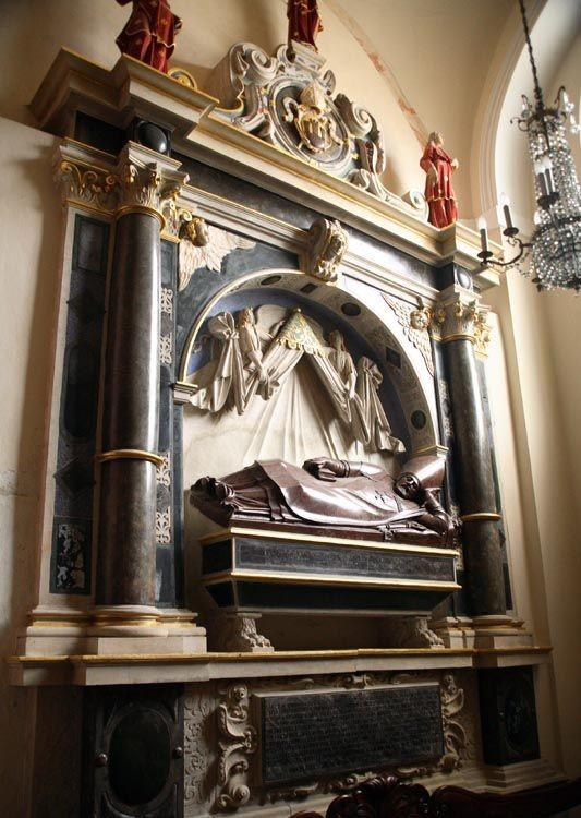 Tomb of bishop Goślicki in the Poznań Cathedral (after 1607).